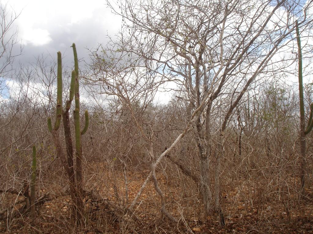 Vegetação caducifolia na caatinga